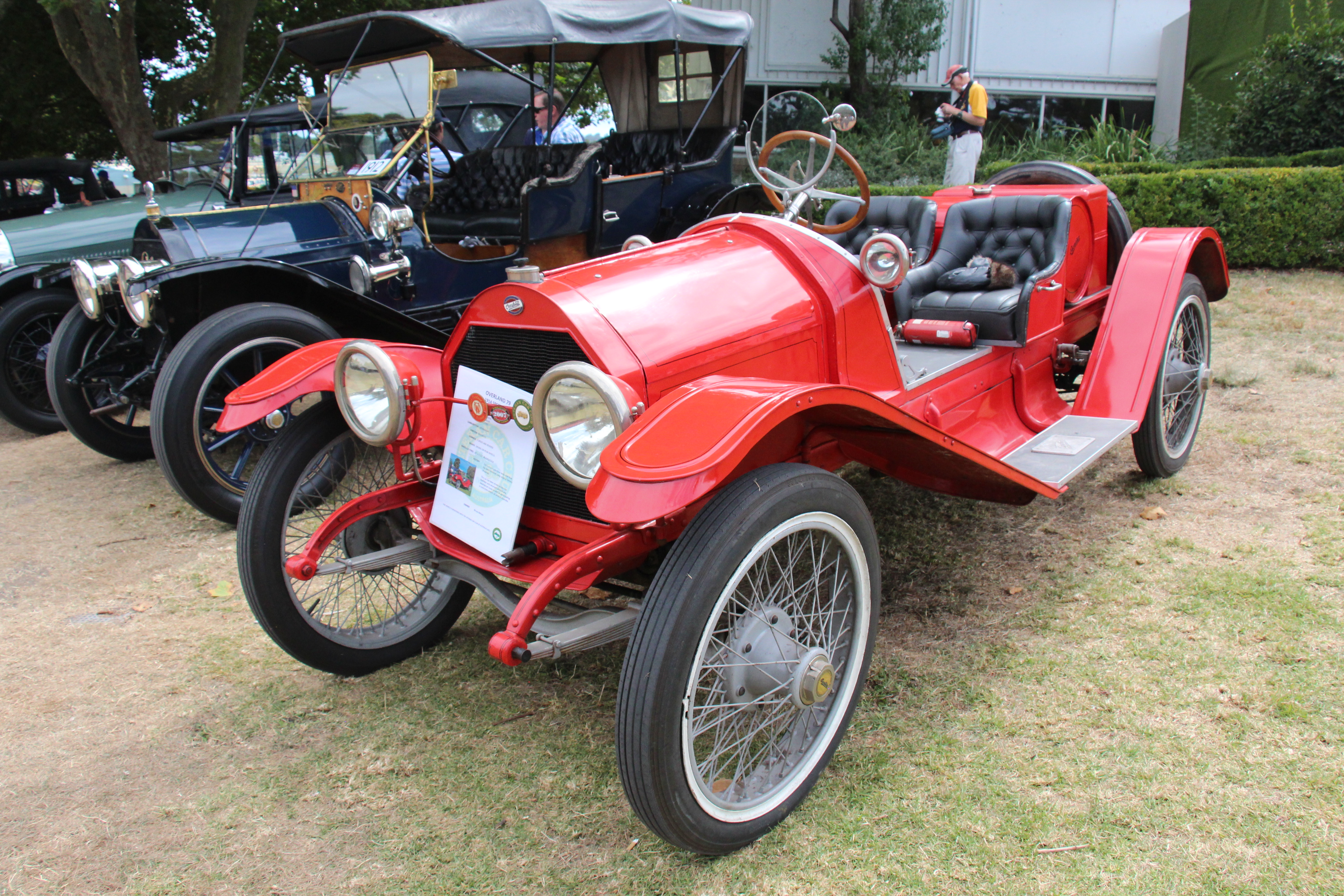 In 1908, John Willys bought the Overland Automotive Division of Standard Wheel Company and in 1912 renamed it Willys-Overland Motor Company. From 1912 to 1918, Willys was the second-largest producer of automobiles in the United States after Ford Motor Company. This 1914 speedster has been rebuilt using original factory drawings. Also in 1914, the Willys Knight was introduced, it employed a Knight sleeve valve engine, generally four- and six-cylinder models, built until 1937 Engine; 35hp 4800cc 4 cyl